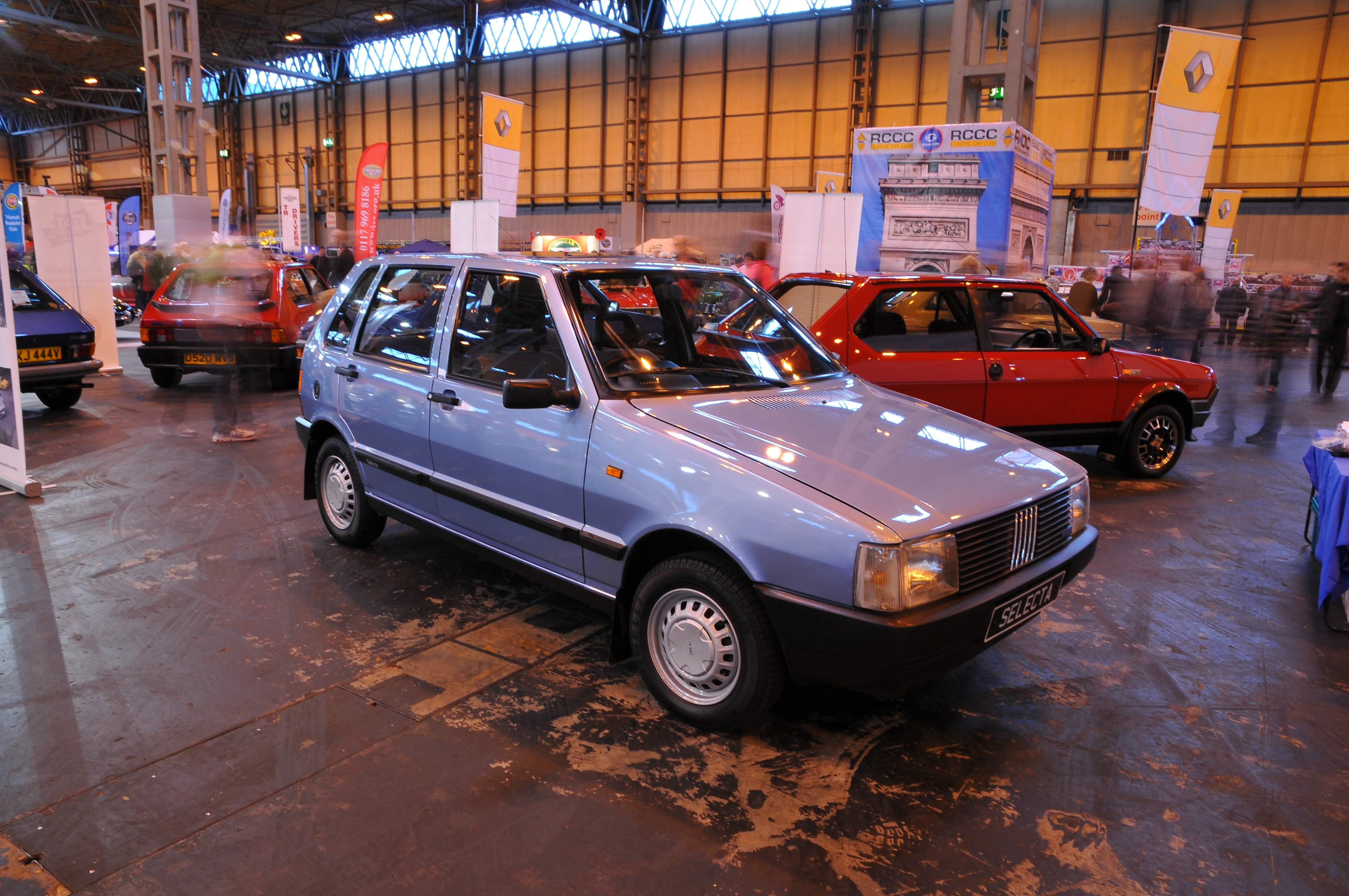 2011 NEC Classic Car Show